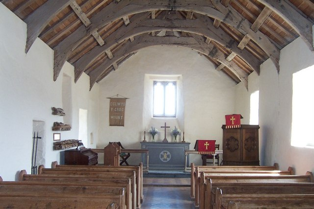 Interior of church at Mwnt. Interior photo showing Altar pews and roof timbers.